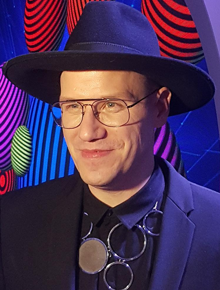 Polish DJ and music producer Gromee after winning at Polish national final for Eurovision 2018.